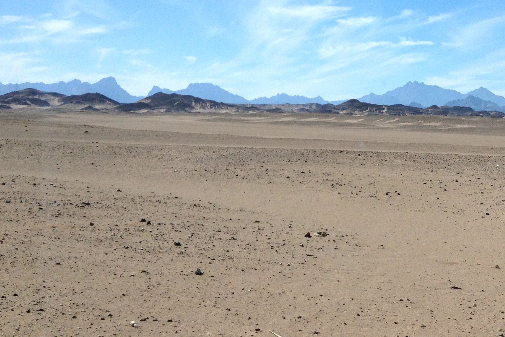 Eastern desert between Hurghada and SafagaLietuvių: Arabijos dykuma tarp Hurgados ir Safagos